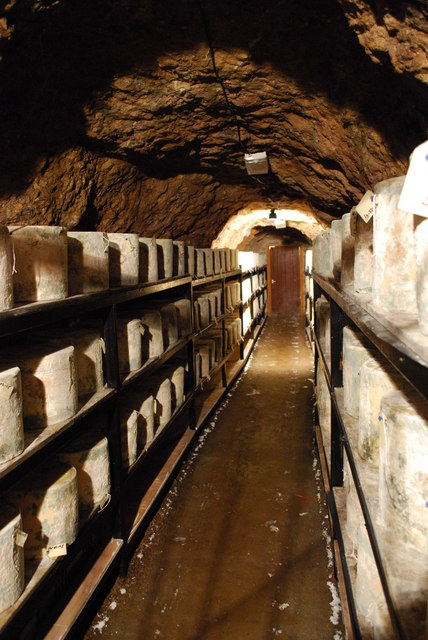 Cheese store Cheddar cheese is stored at Wookey Hole caves at a constant temperature of 11c